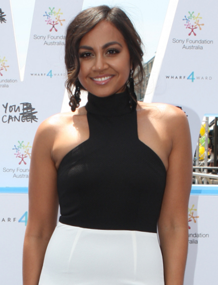 Jessica Mauboy at the Sydney Stars Come Out for Sony Foundation Youth Cancer Campaign - WHARF4WARD.